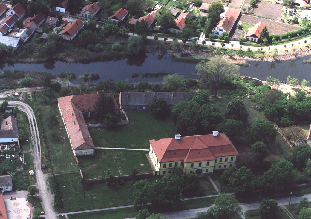 Palace - Szegvár - Hungary - Europe (Károlyi Mansion)